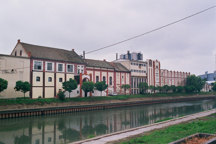 Brewery Zrenjanin Srpski (latinica): Pivara Zrenjanin